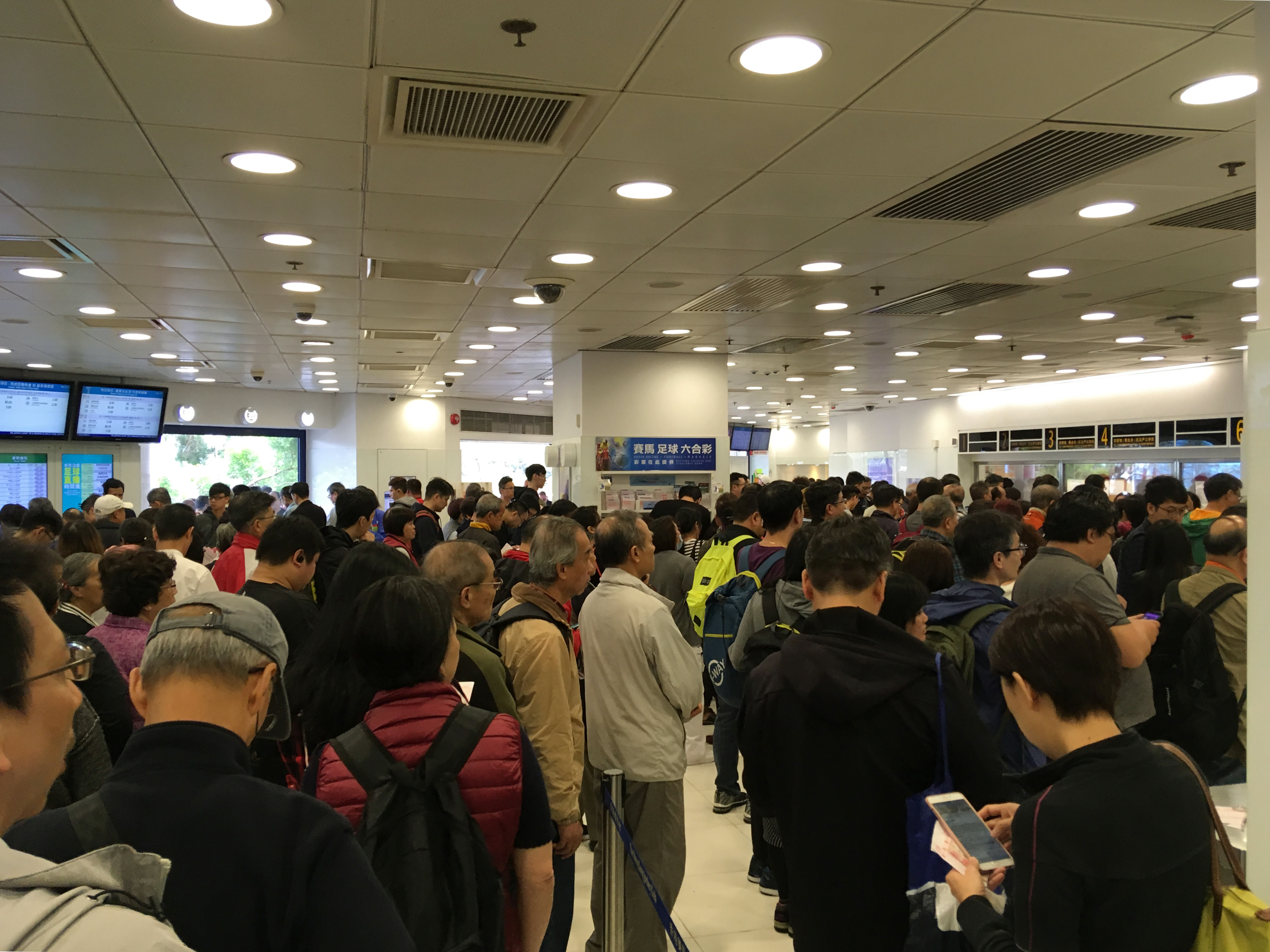 Off-course Betting Branches of Hong Kong Jockey Club interior